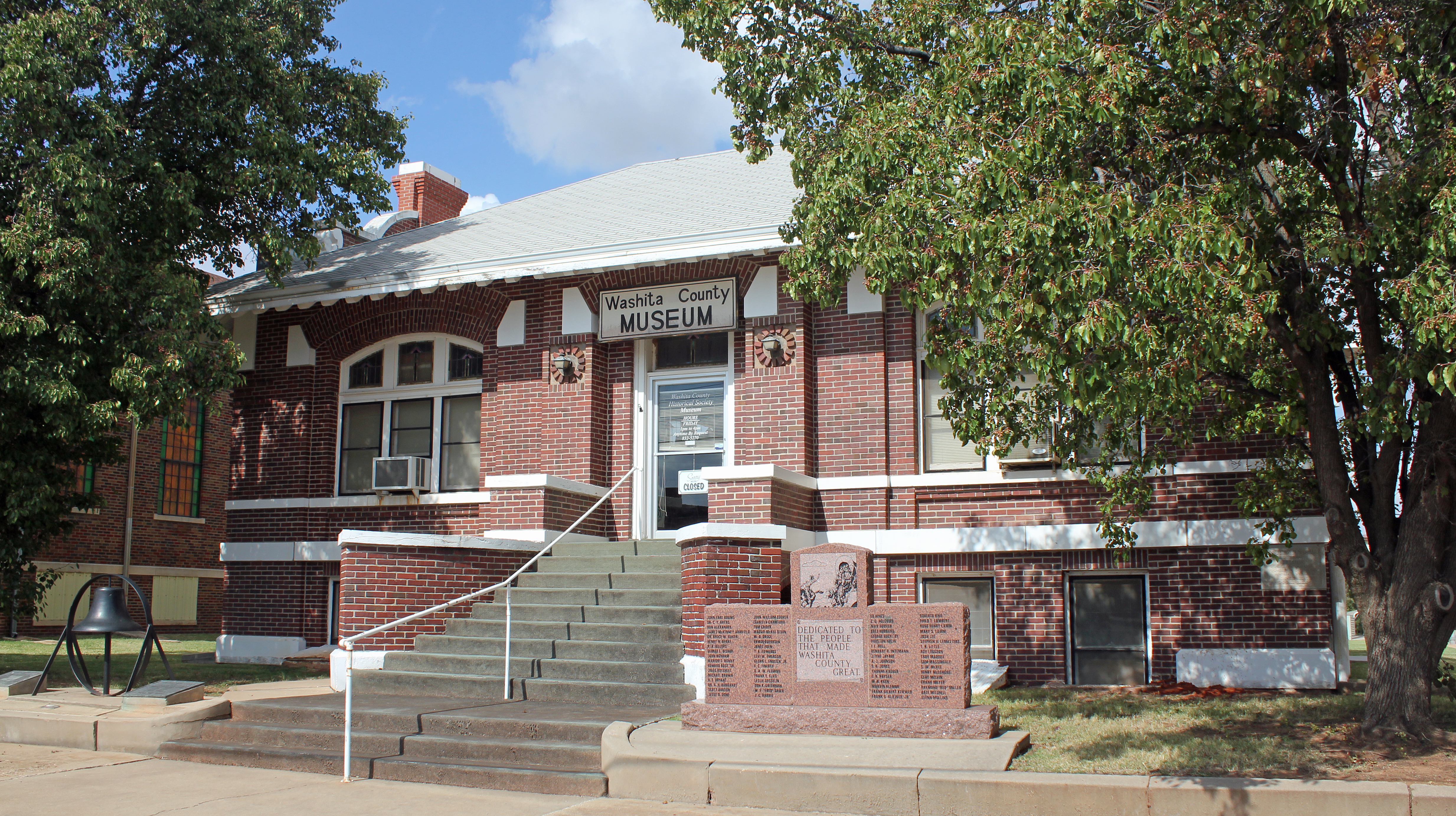 The Cordell Carnegie Public Library, located at 105 East First Street in New Cordell, Oklahoma. The property, now a museum, is listed on the National Register of Historic Places.